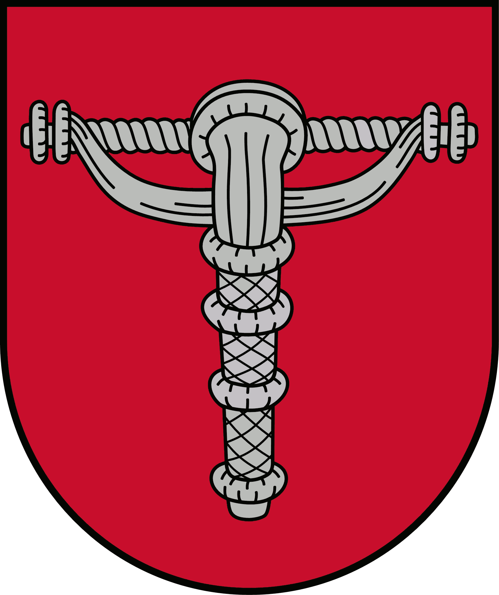 Coat of arms of Grobiņas novads, Latvia